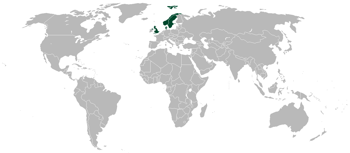 Widerøe routemap